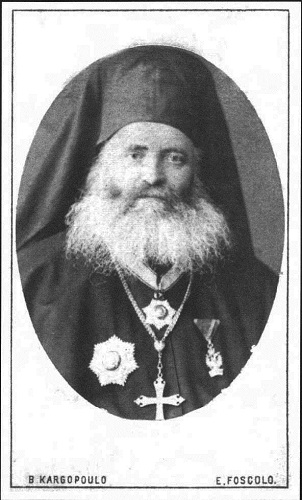 Nilus Izvorov by Basile Kargopoulo